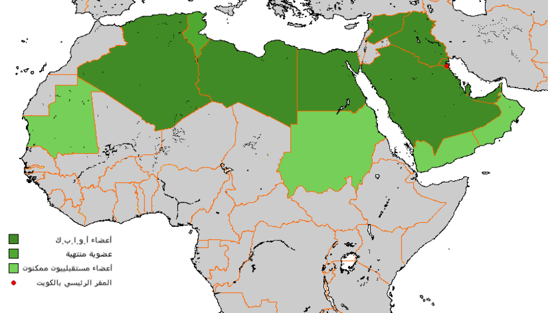 Oapec members... with current suspended and possible members